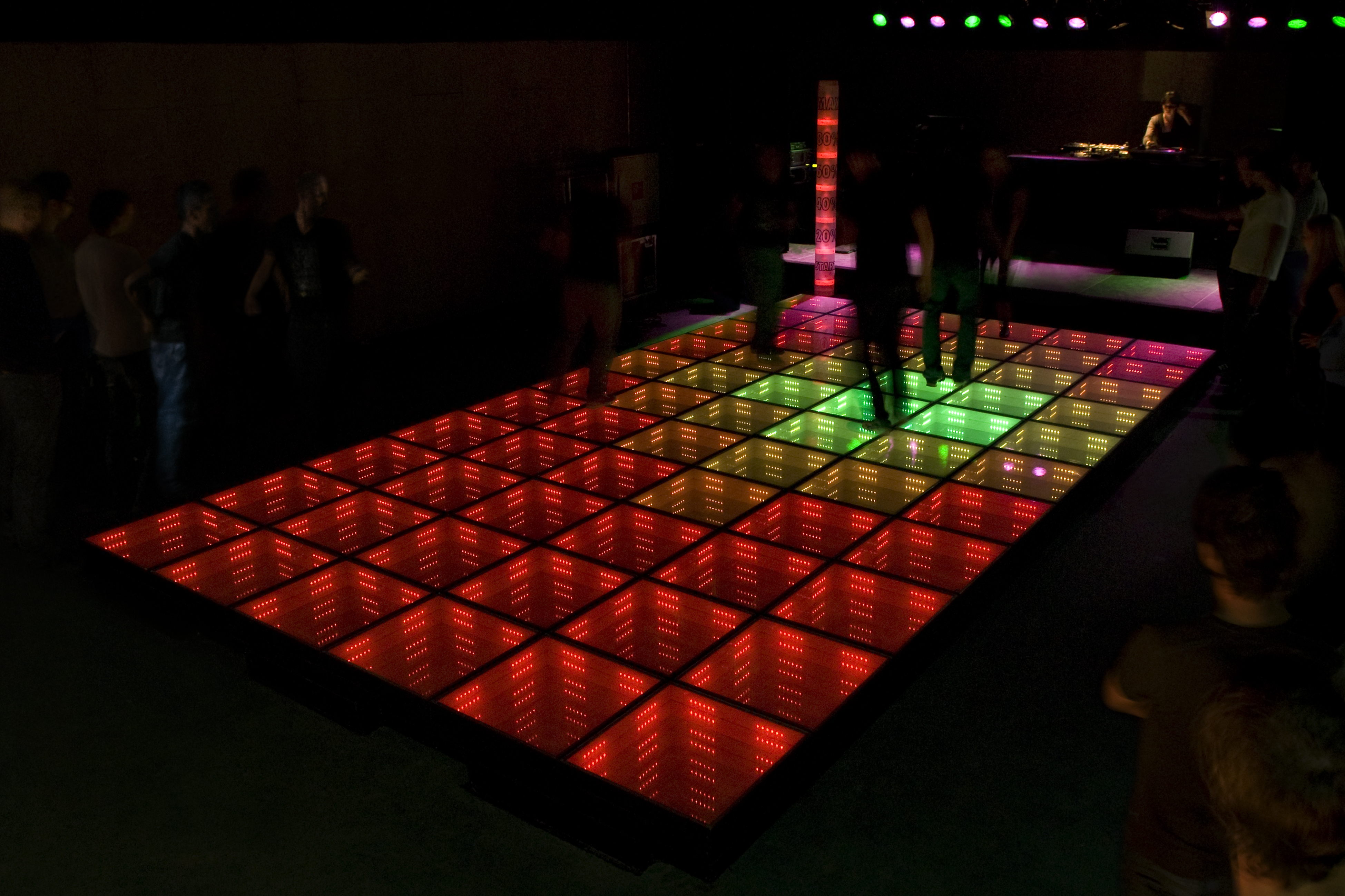 Photo of the "Sustainable Dance Floor"